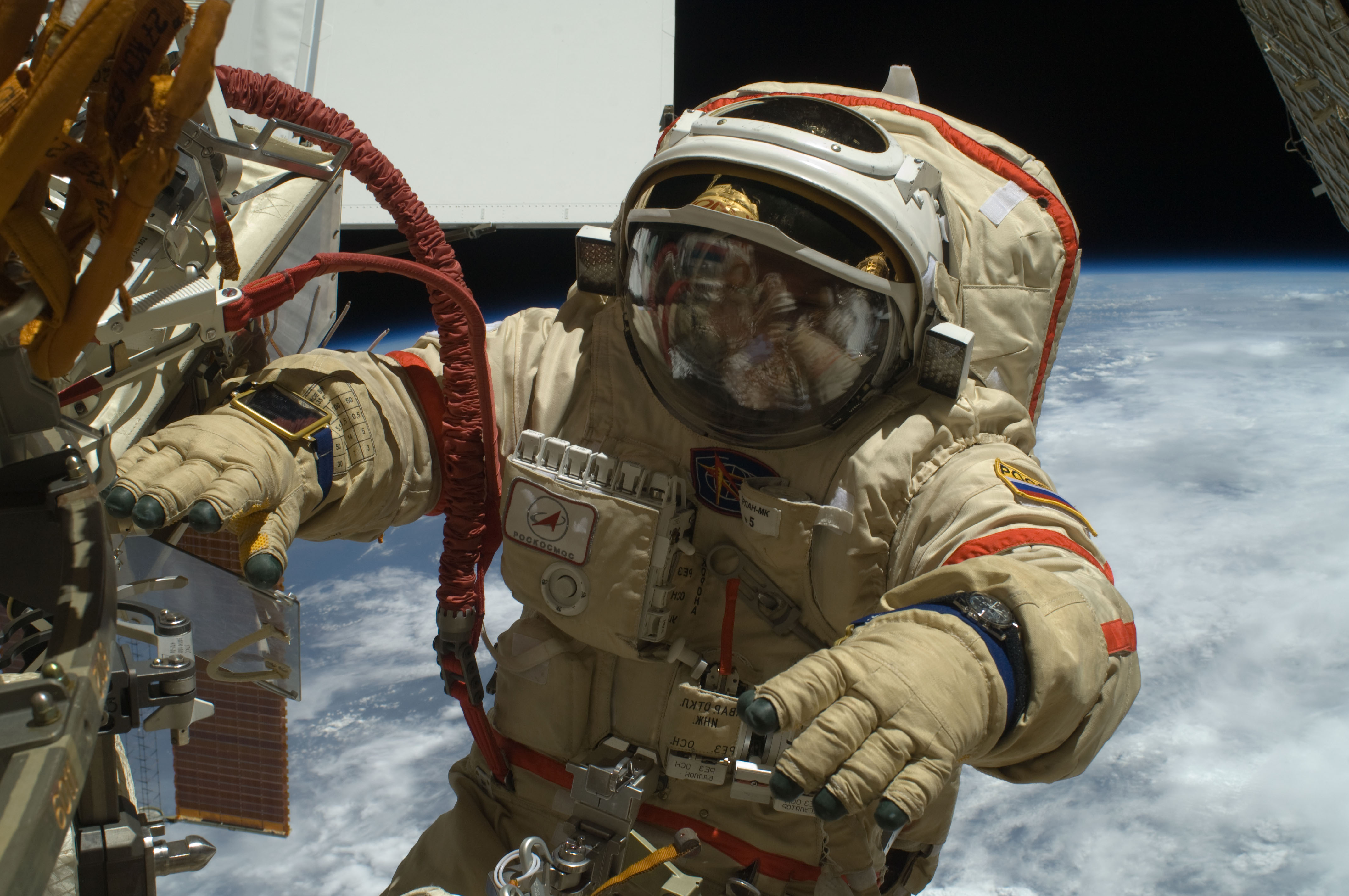 Russian cosmonauts Oleg Kotov and Maxim Suraev (out of frame), both Expedition 22 flight engineers, participate in a session of extravehicular activity (EVA) as maintenance and construction continue on the International Space Station. During the spacewalk, Kotov and Suraev prepared the Mini-Research Module 2 (MRM2), known as Poisk, for future Russian vehicle dockings. Suraev and NASA astronaut Jeffrey Williams, commander, will be the first to use the new docking port when they relocate their Soyuz TMA-16 spacecraft from the aft port of the Zvezda Service Module on Jan. 21. Earth's horizon and the blackness of space provide the backdrop for the scene.